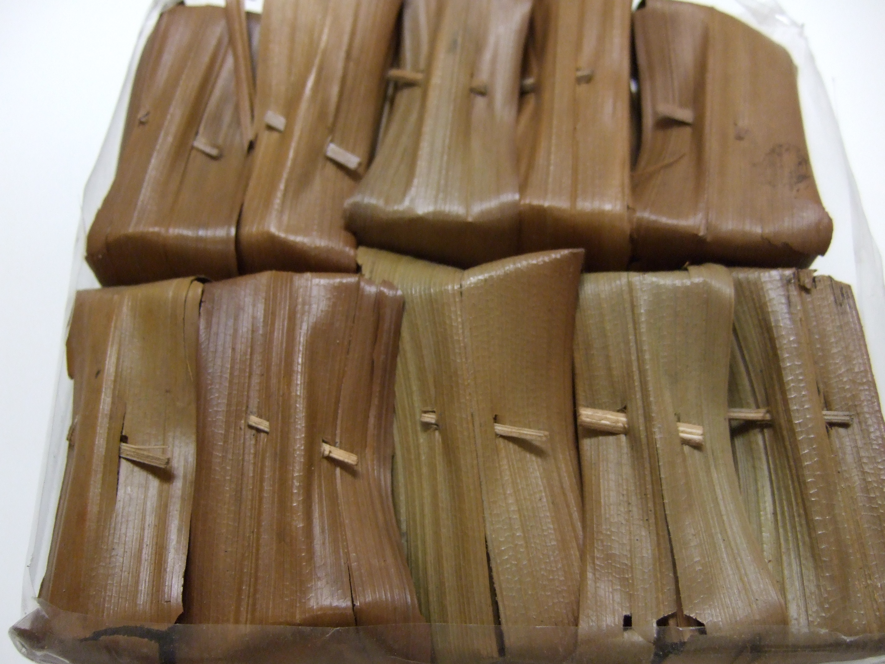 Bagea, cookie made of sago and nuts from Canary tree. Product of Amurang, North Sulawesi